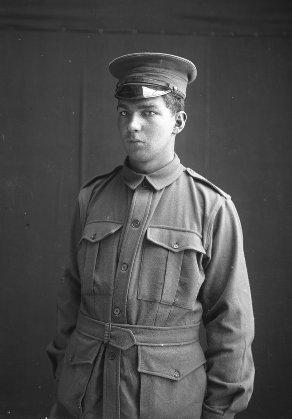 Thomas Playford in 1915, as a lieutenant in the 27th Battalion.